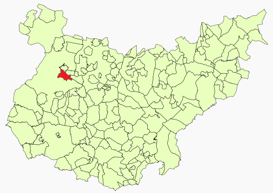 Talavera la Real